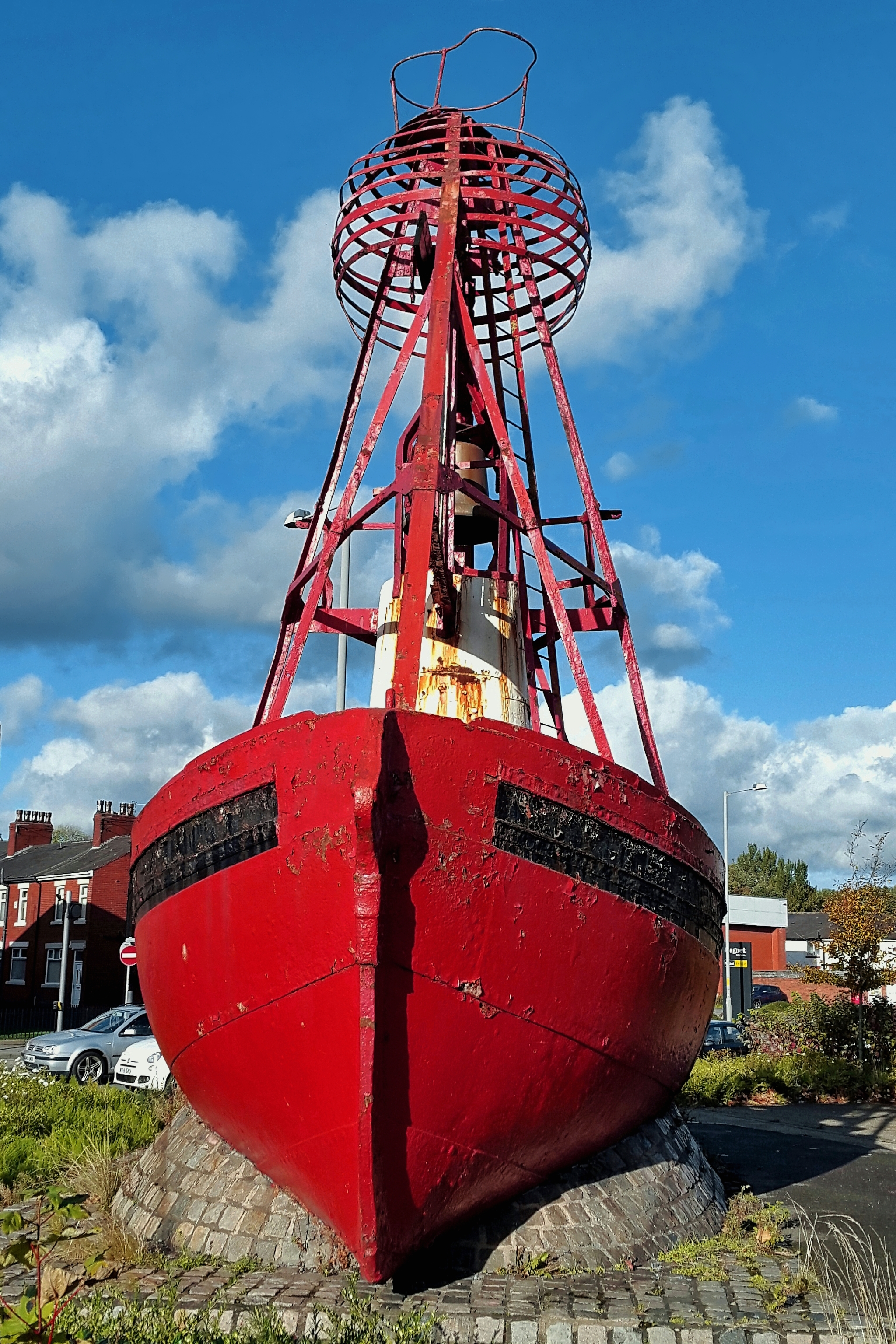 Nelson safe water landfall buoy ("bell boat buoy"), purchased from Irish Lights Commission by Preston Corporation in 1890. At Riversway, Preston Lancs UK.